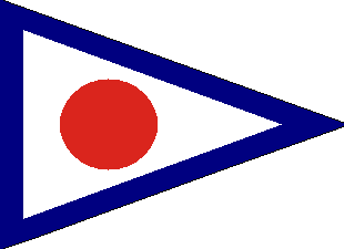 Union Army I Corps, 1st Division Badge, 3rd Brigade